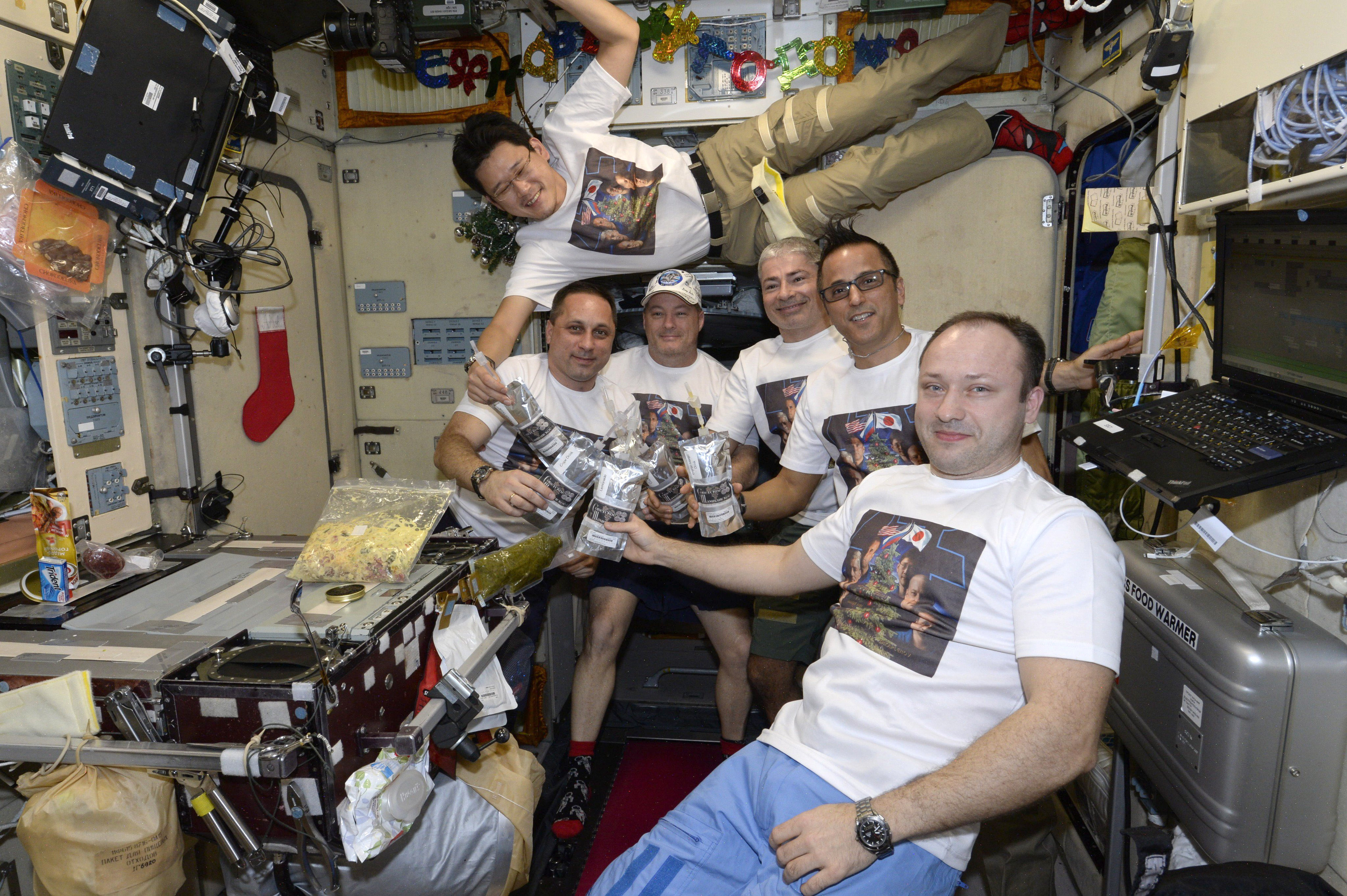 From the @Space_Station, wishing everyone across the world a happy and safe 2018.